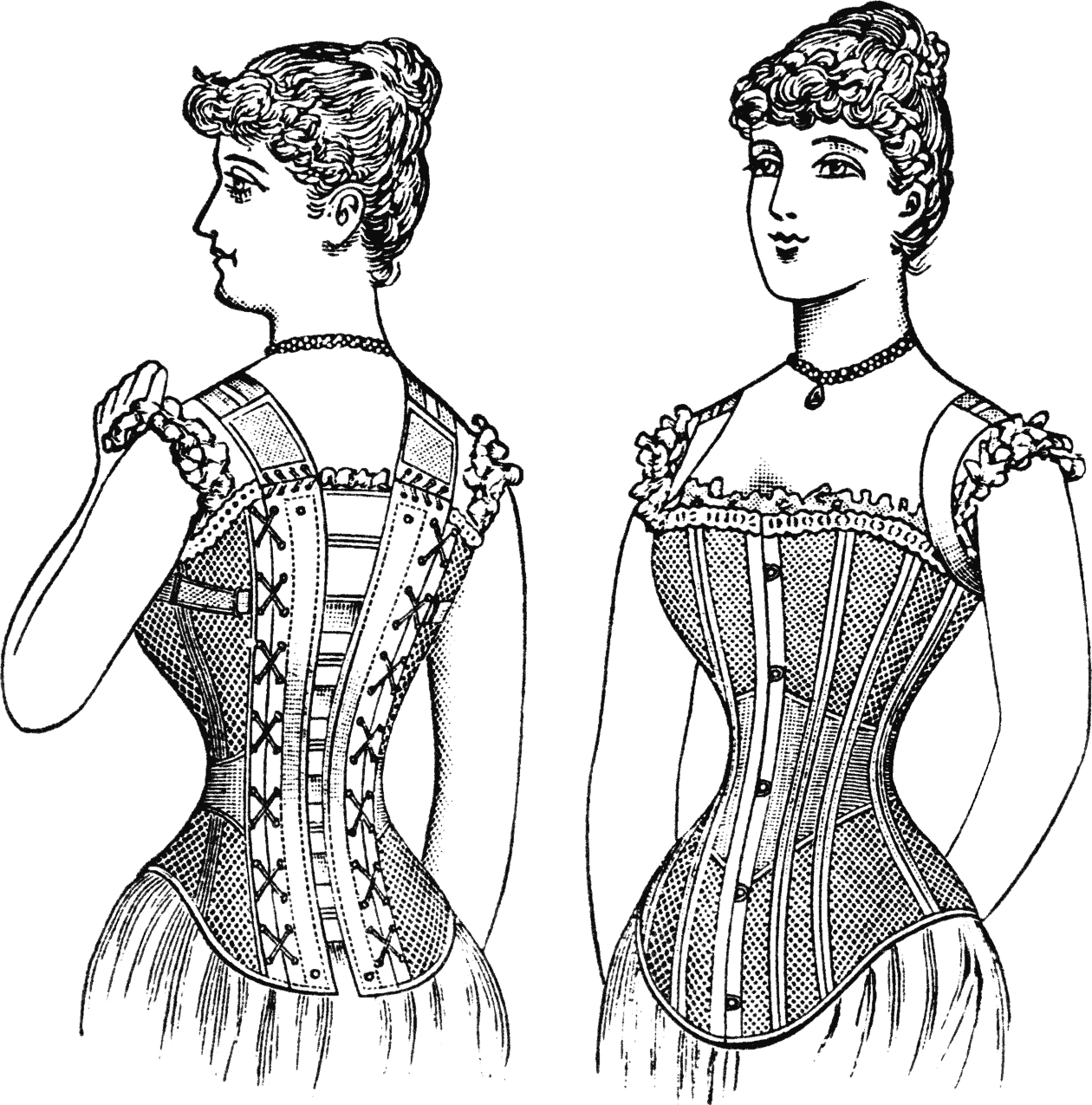 The Imperial summer corset ca. 1890